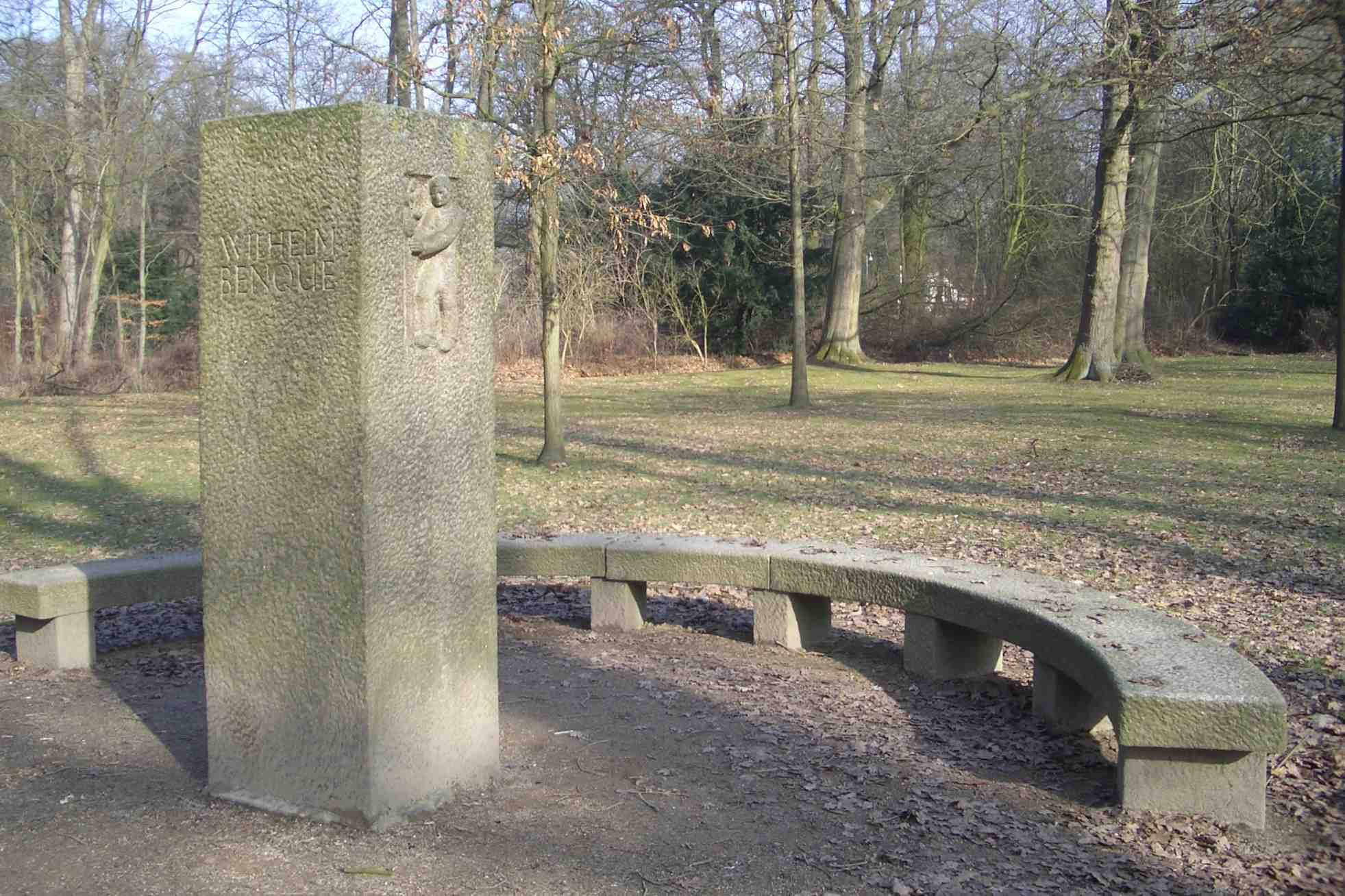 Wilhelm Benque monument in Civic Park Bremen, created by Ernst Gorsemann.(Google translator).